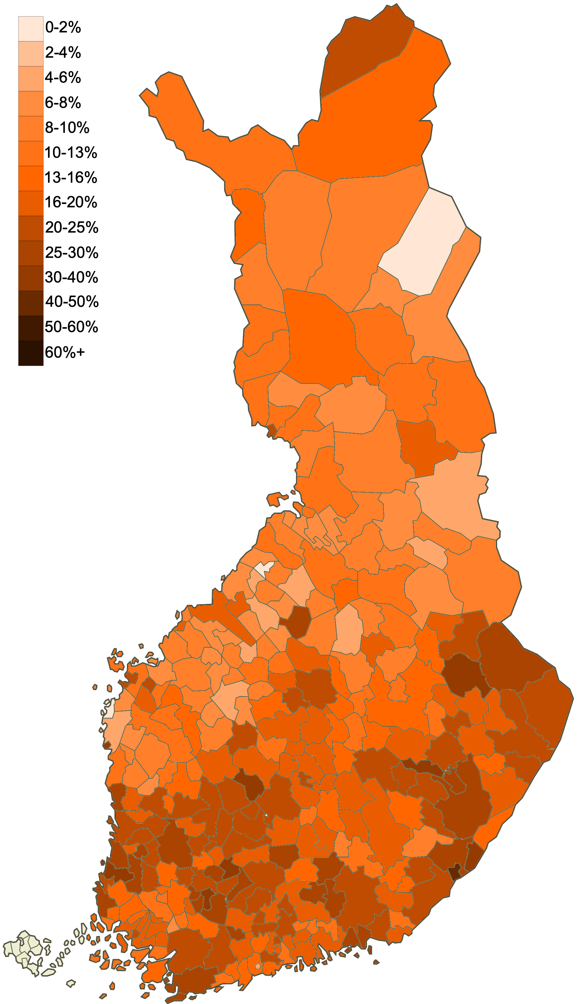 Support for the Social Democratic Party by municipality in the election for the Eduskunta.